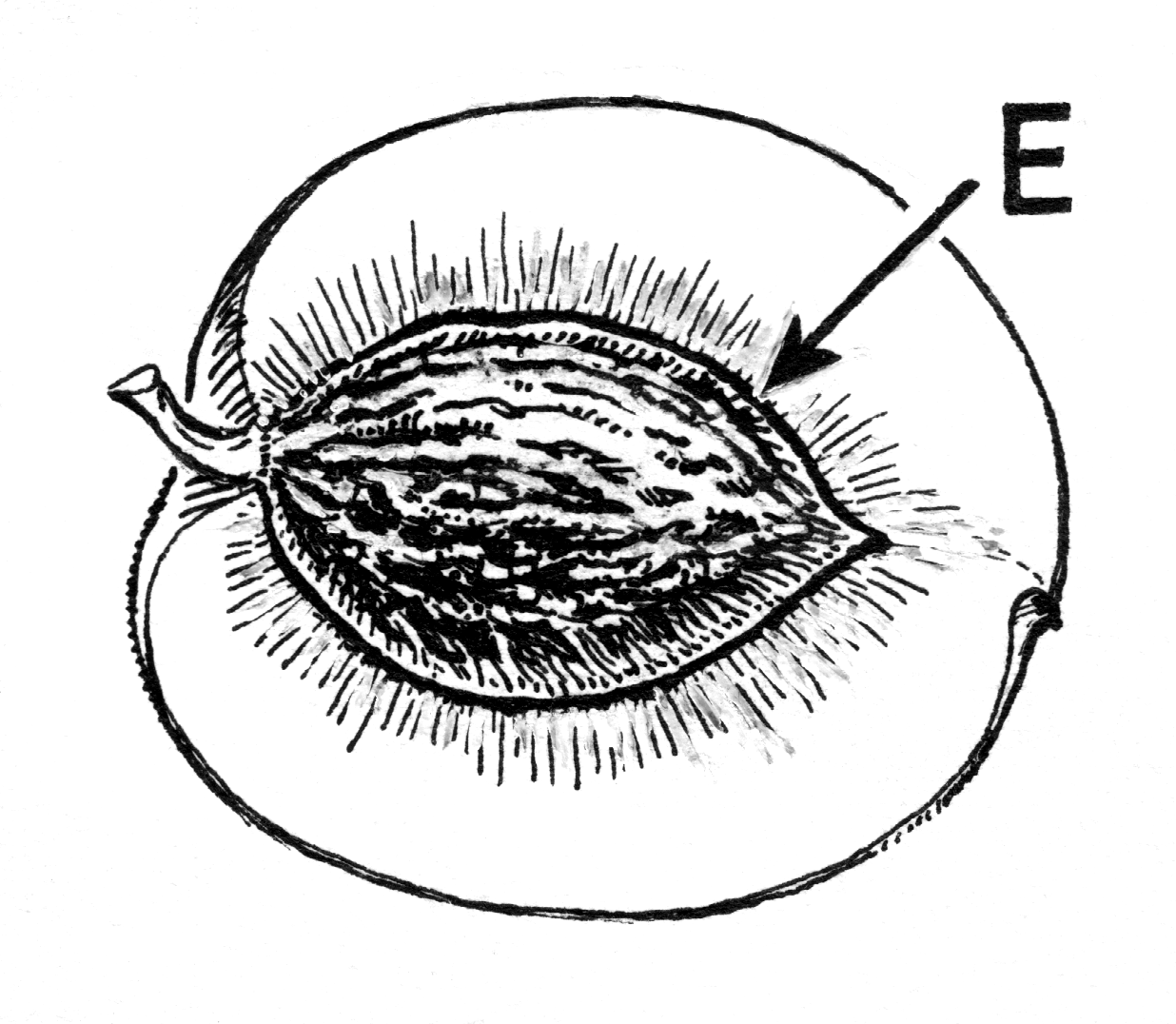 Diagram showing the Endocarp of a fruit.